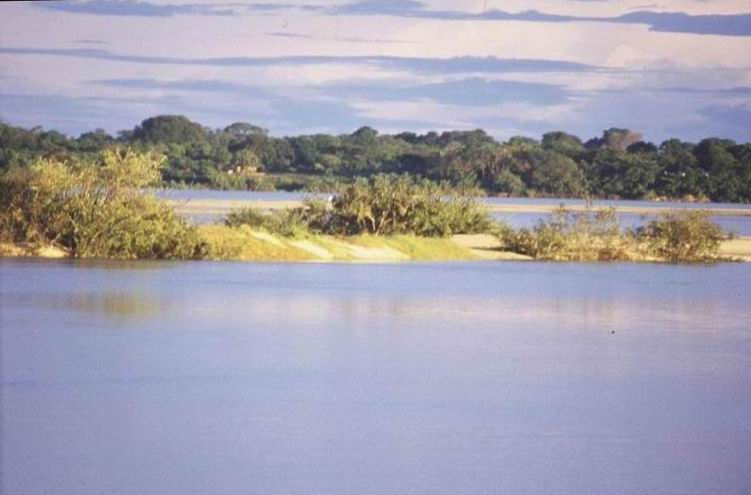 Araguaia River created by he:משתמש:בן הטבע